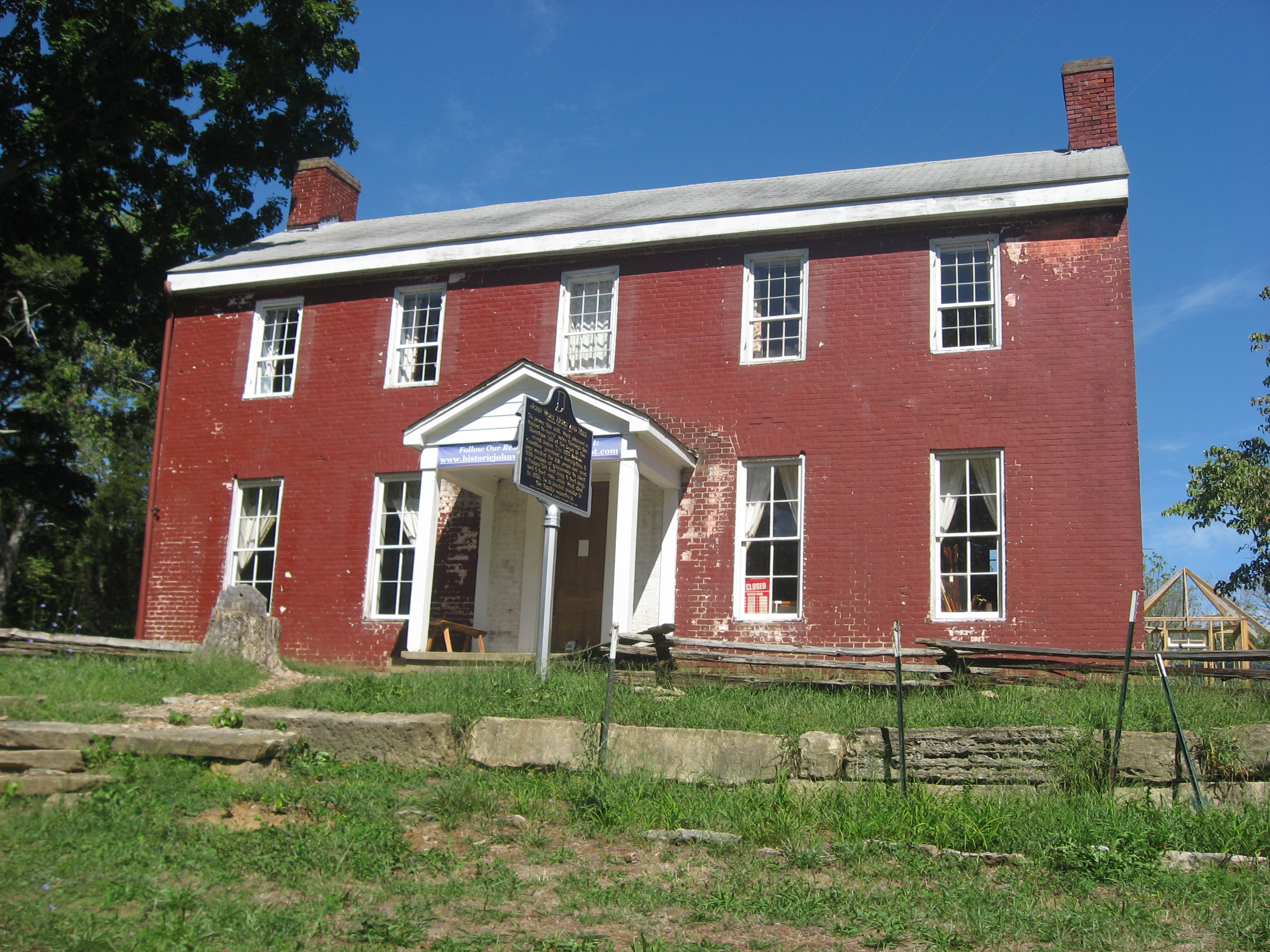 Front of the John Work House, located on the grounds of Tunnel Mill Scout Reservation along Tunnel Mill Road northeast of Charlestown in Charlestown Township, Clark County, Indiana, United States. Built in 1811, it is listed on the National Register of Historic Places.